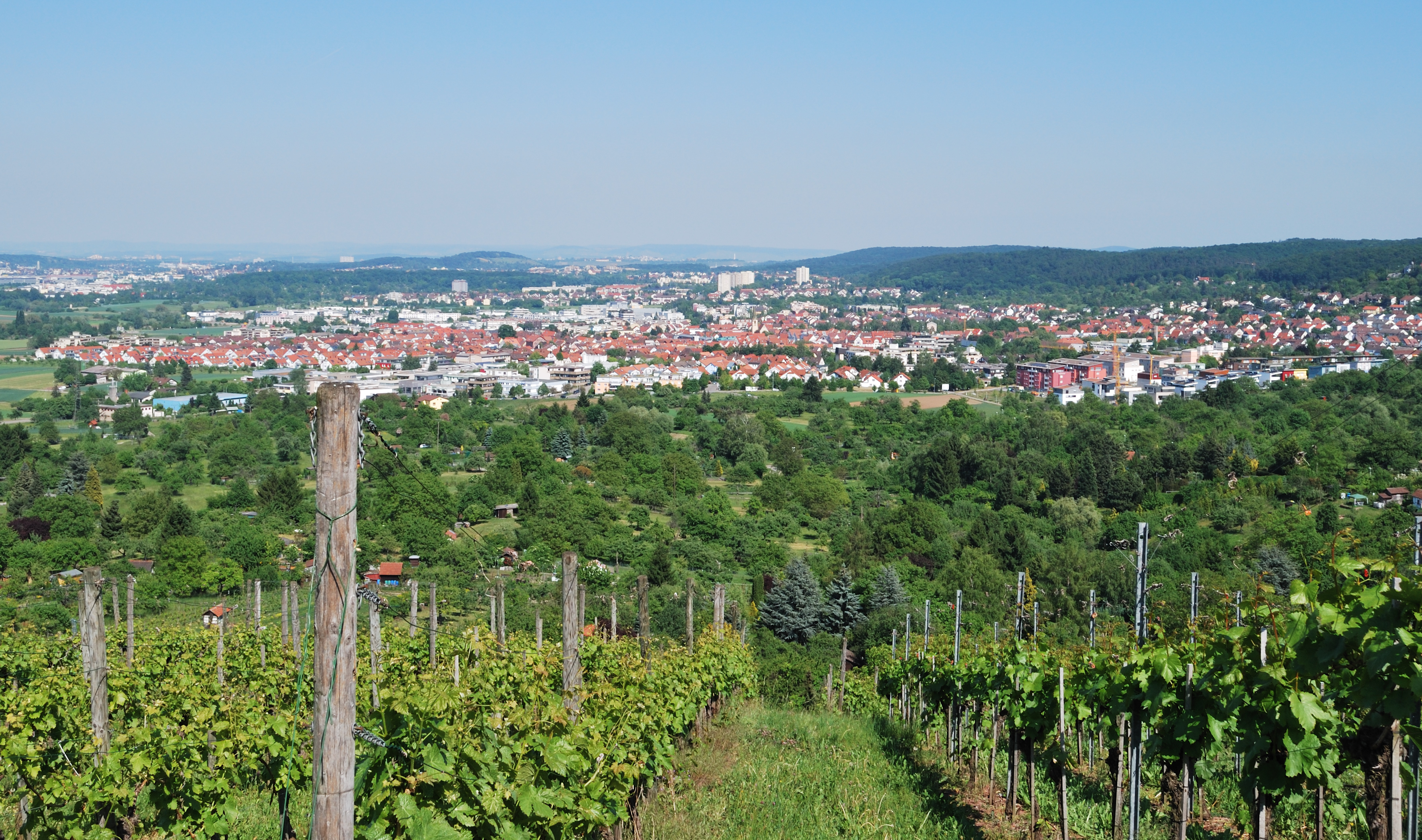 View of Gerlingen, Southern Germany, from the West.